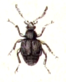 Bryaxis clavicornis, from Calwer's Käferbuch, Table 11, Picture 6. Taxonomy was updated to 2008, using mostly the sites Fauna Europaea and BioLib. Please contact Sarefo if the determination is wrong!